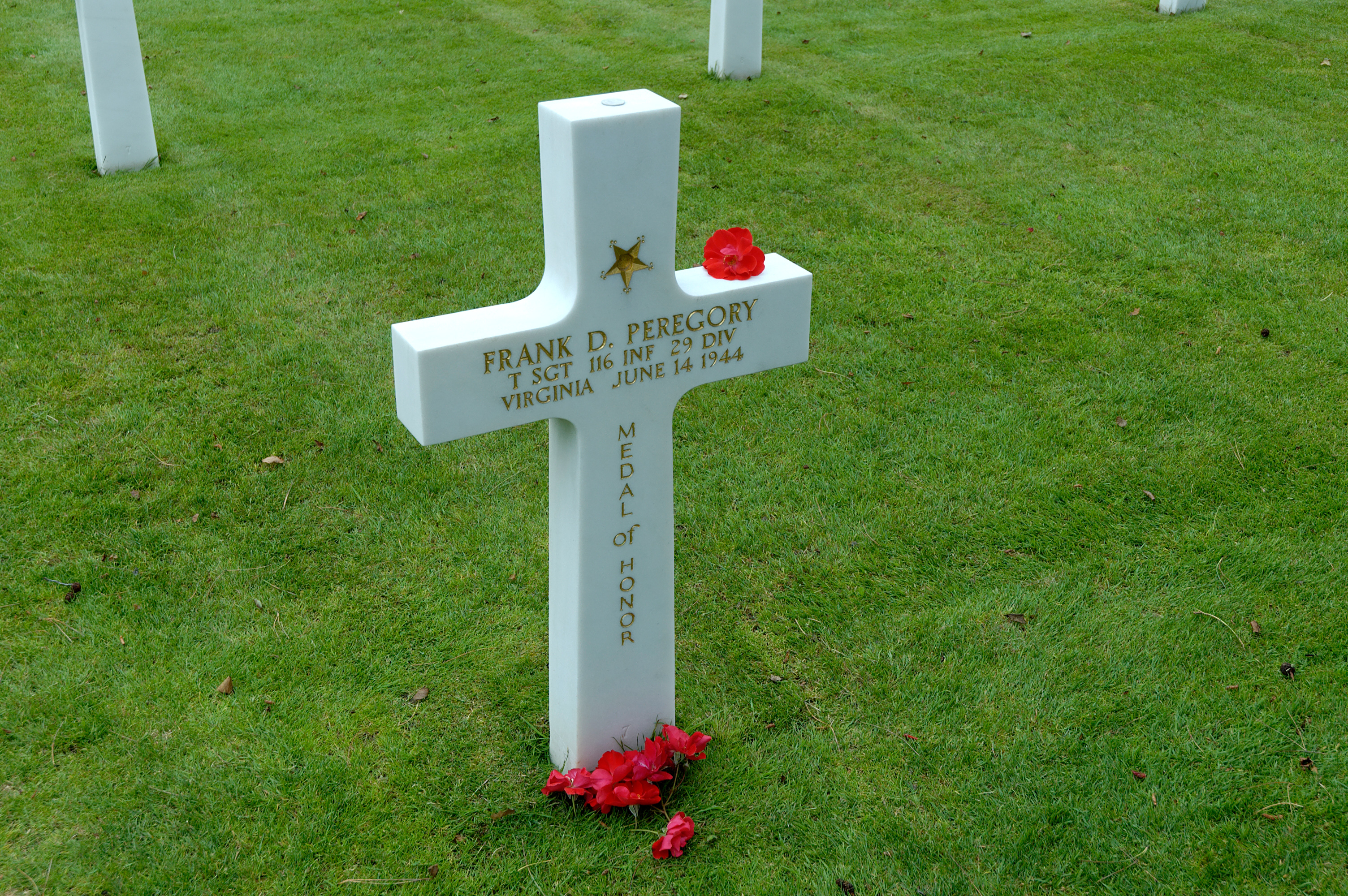 Photograph of the Gravestone of Frank D Peregory, Medal of Honor